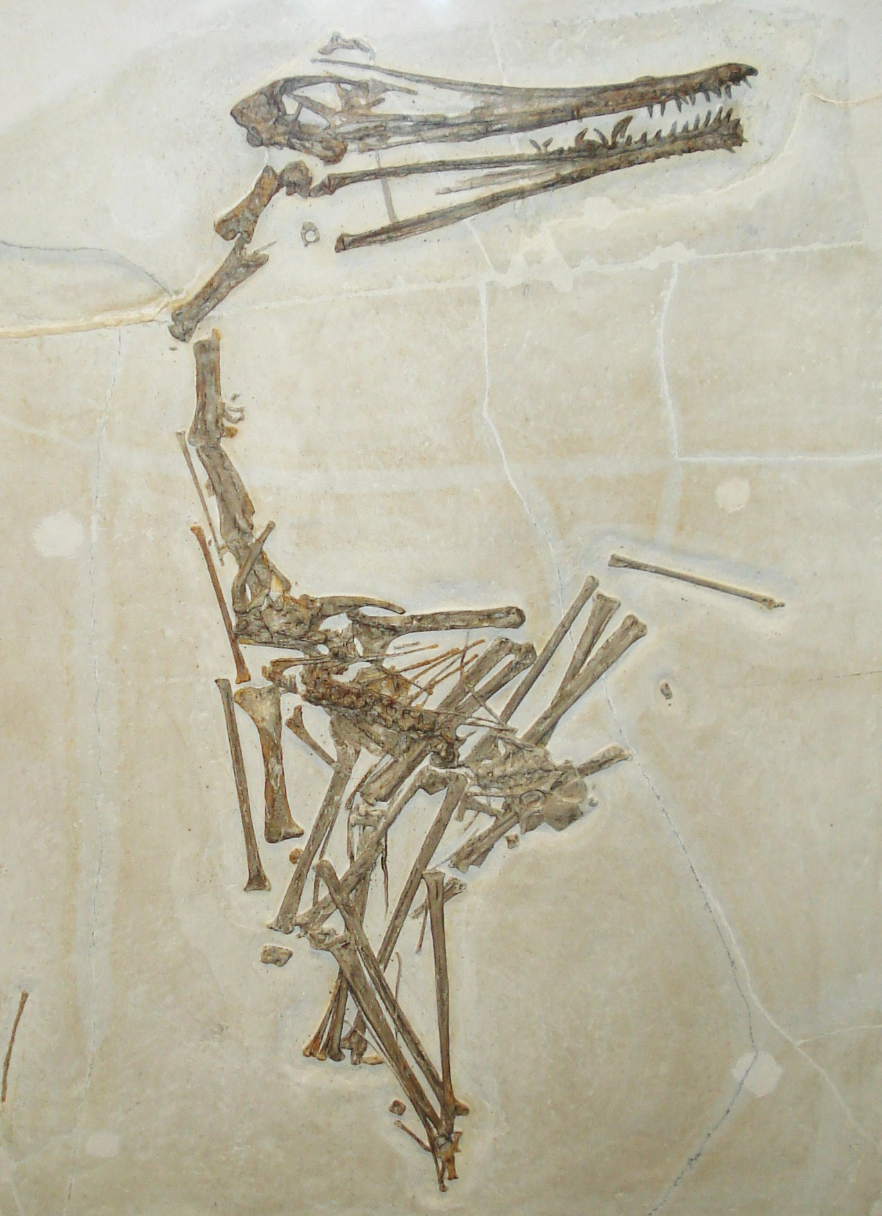 Neotype fossil of Ardeadactylus longicollum, specimen number SMNS 56603 (Number 58 in Wellnhofer 1970).